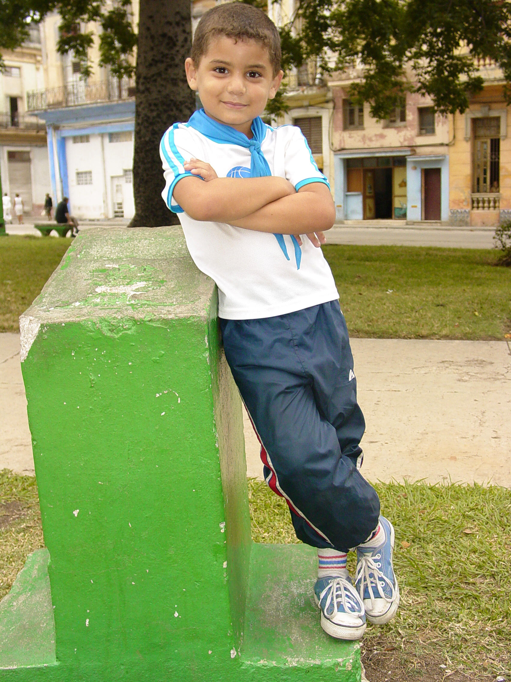 Young boy in confident pose, Centro Habana, Havana. December 2006.